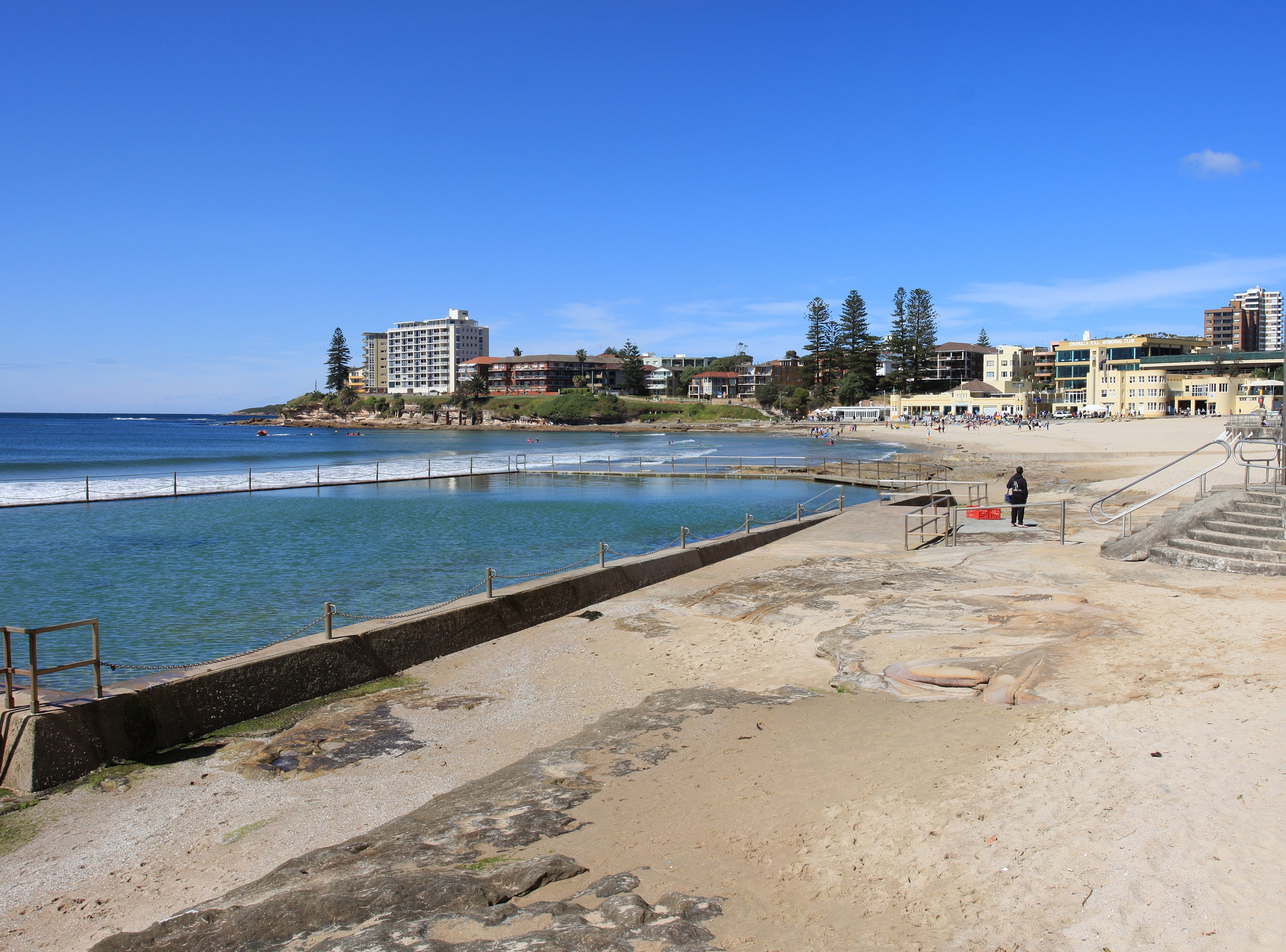 Cronulla Beach, new south wales